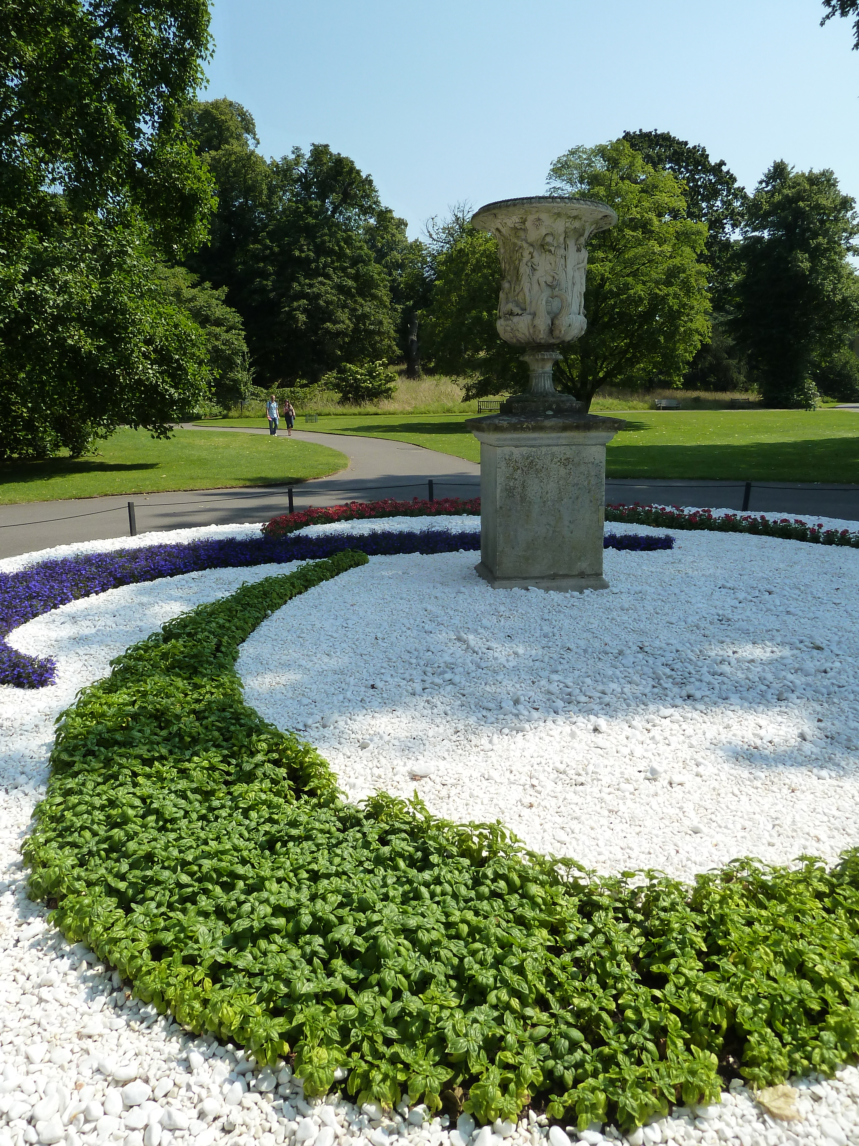 Kew Gardens, London